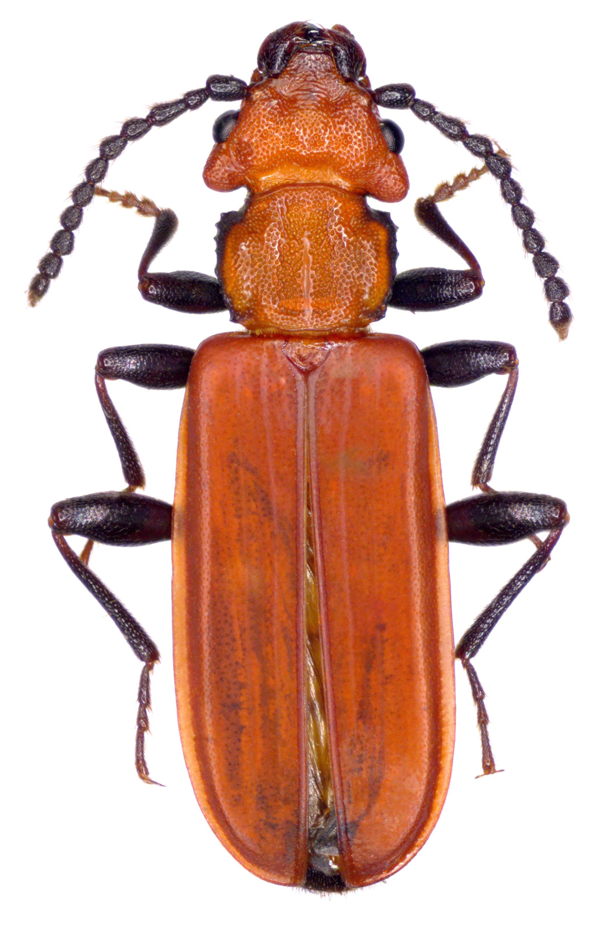 Cucujus cinnaberinus Scopoli, 1763 (Coleoptera, Cucujidae).